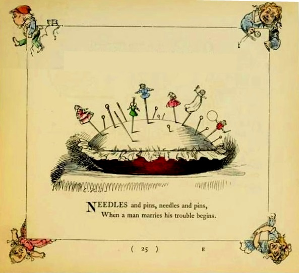 Charles H. Bennett's illustration of the rhyme "Needles and pins" in Old Nurse’s Book of Rhymes, Jingles and Ditties, London 1858